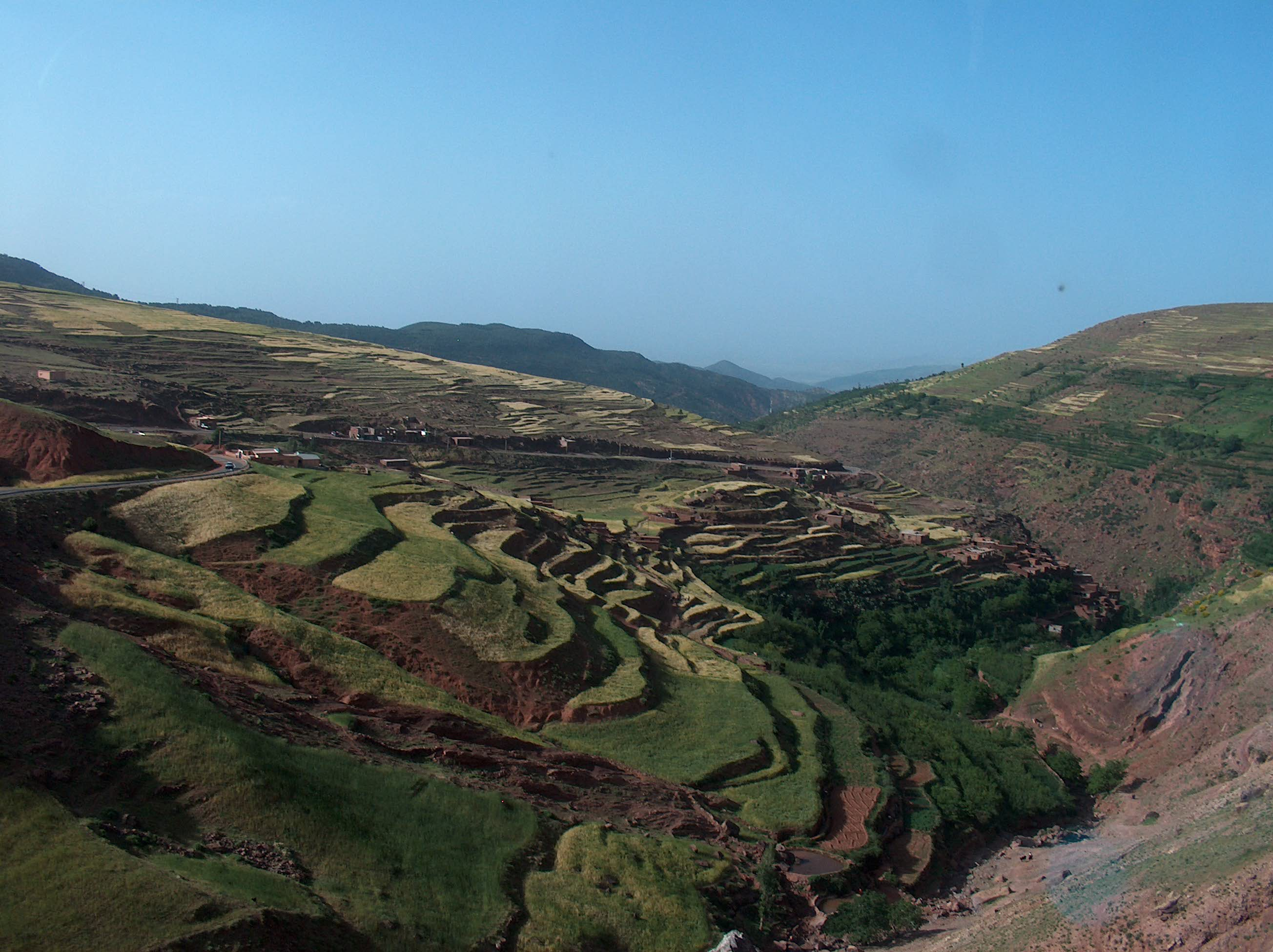 Terraces in upstream Ourika Valley